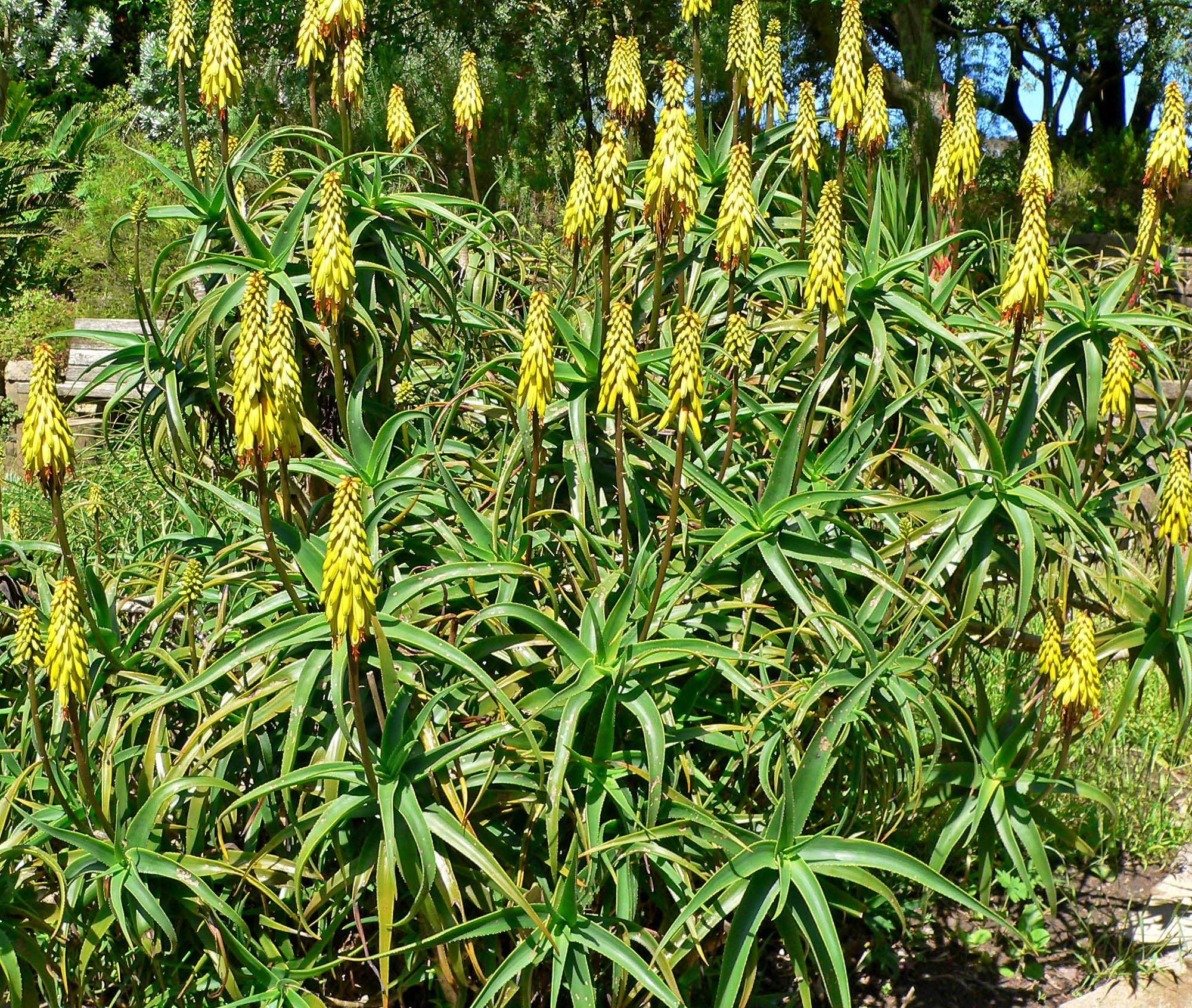 Photo of Aloe striatula at the San Francisco Botanical Garden